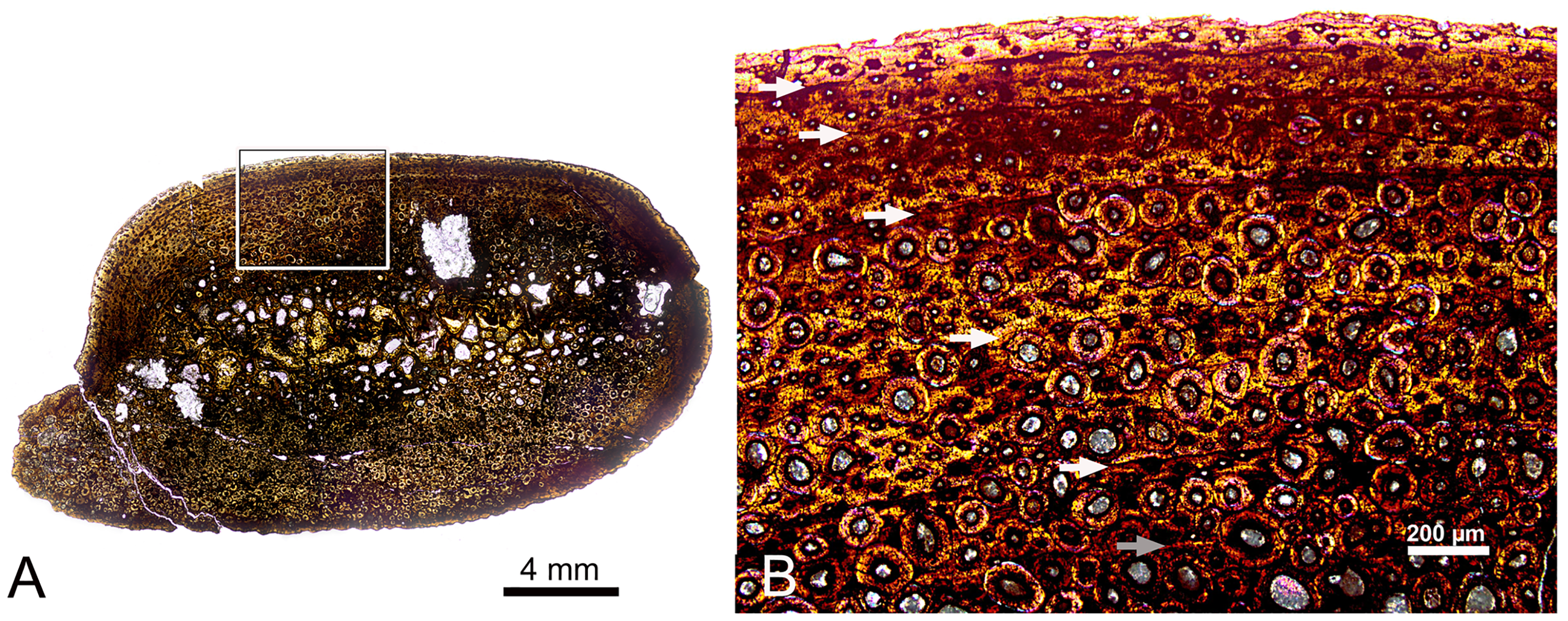 Fig 13. Histology of FMNH PR 3847. (A) Composite micrograph of cross section of caudal dorsal rib of FMNH PR 3847 stitched from 42 individual micrographs. The boxed area is magnified in (B) under polarized light. Five definitive LAGs are marked with white arrows, while a sixth potential growth mark (grey arrow) may be present, but this is less certain as it is truncated by secondary osteons.